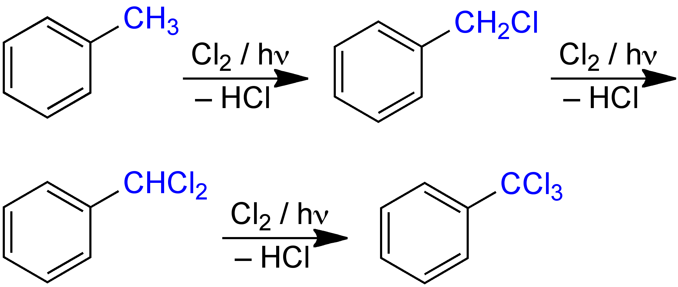 Toluene_Halogenation